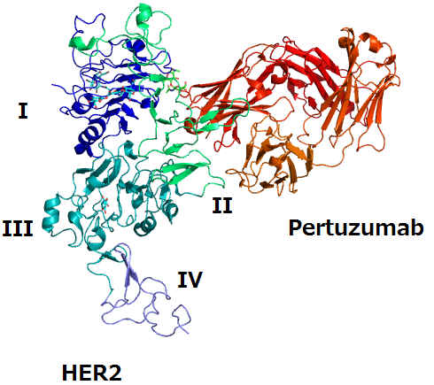 Structure of HER2(ErbB2) extracellular domain and pertuzumab(anti-HER2 antibody) complex. This file is created from PDB file 1S78.